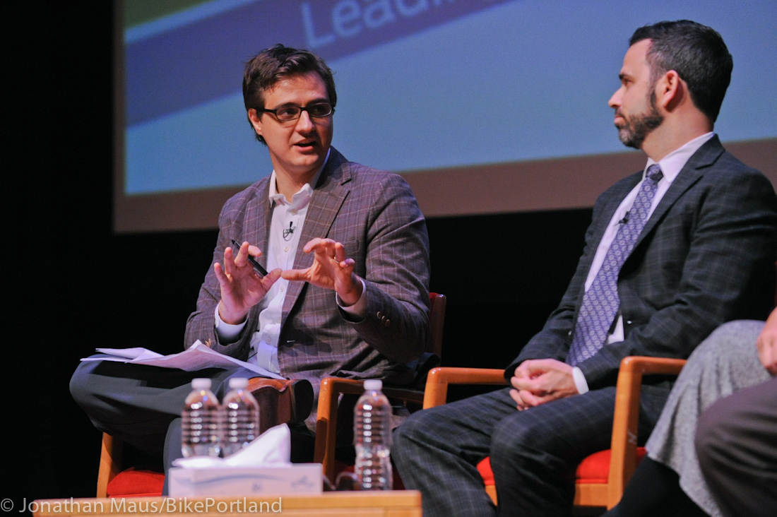 MSNBC's Chris Hayes with Chicago DOT commish Gabe Klein